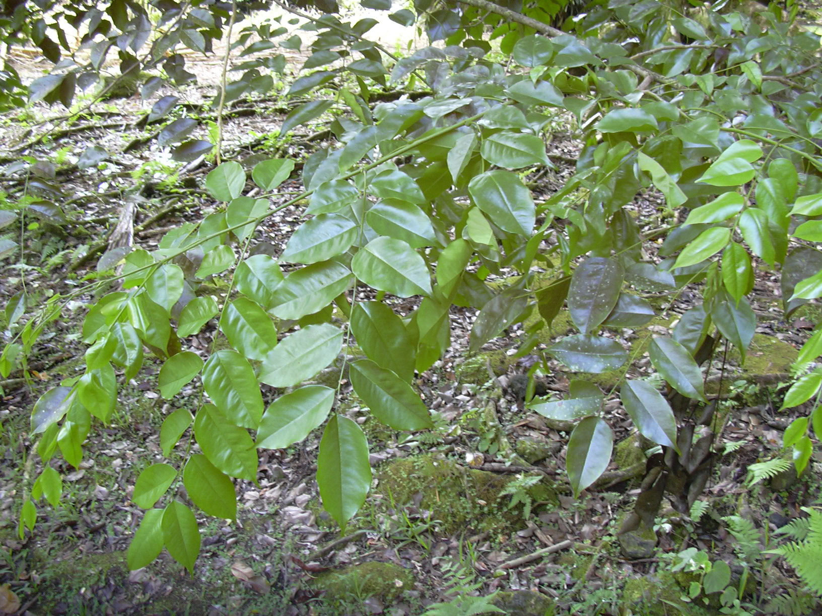 Pterocarpus indicus f. echinatus (leaves). Location: Maui, Keanae Arboretum